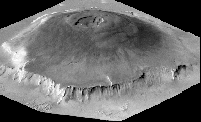 Olympus Mons, a mountain on Mars and the highest mountain in the Solar System.